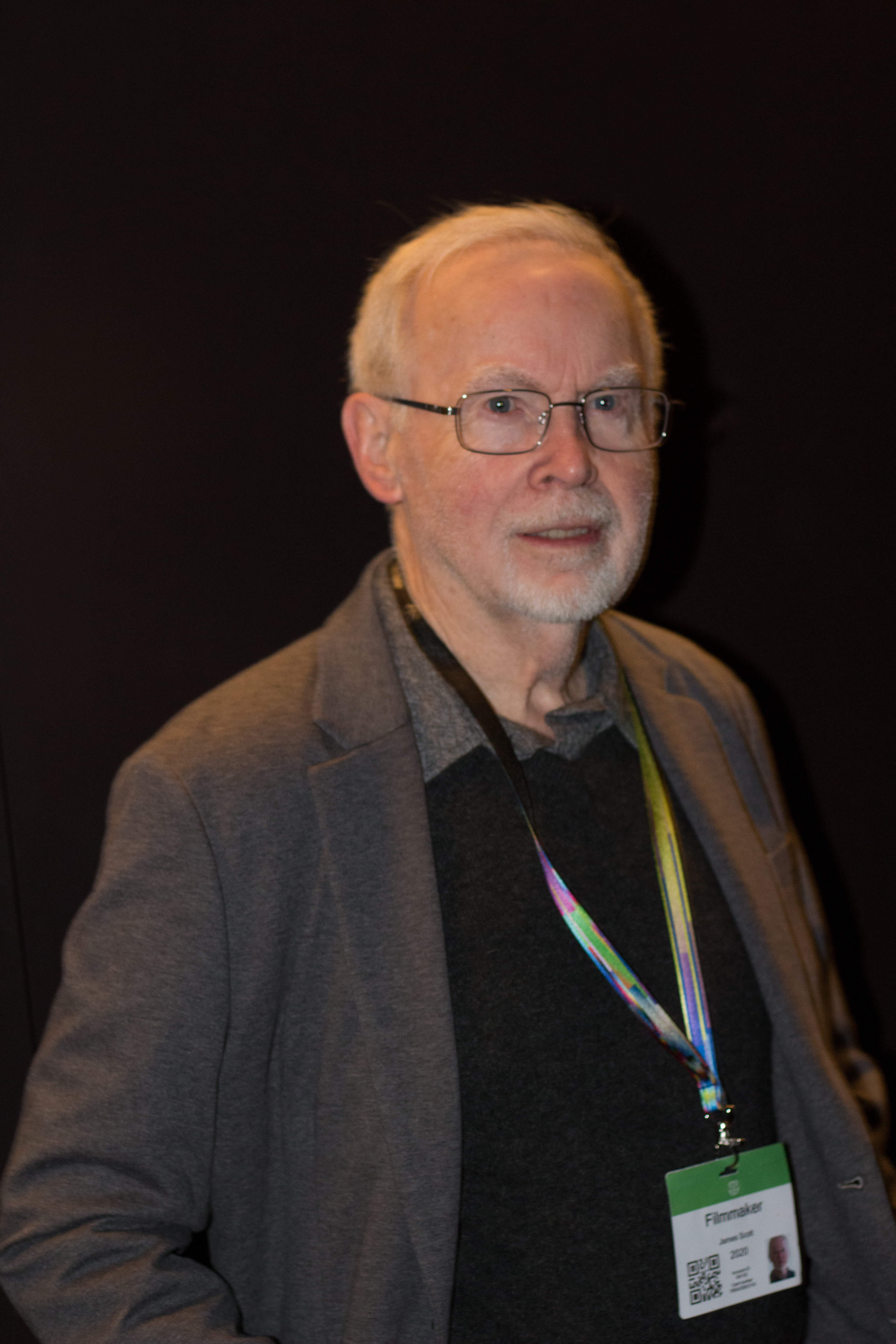 James Scott at the IFFR 2020